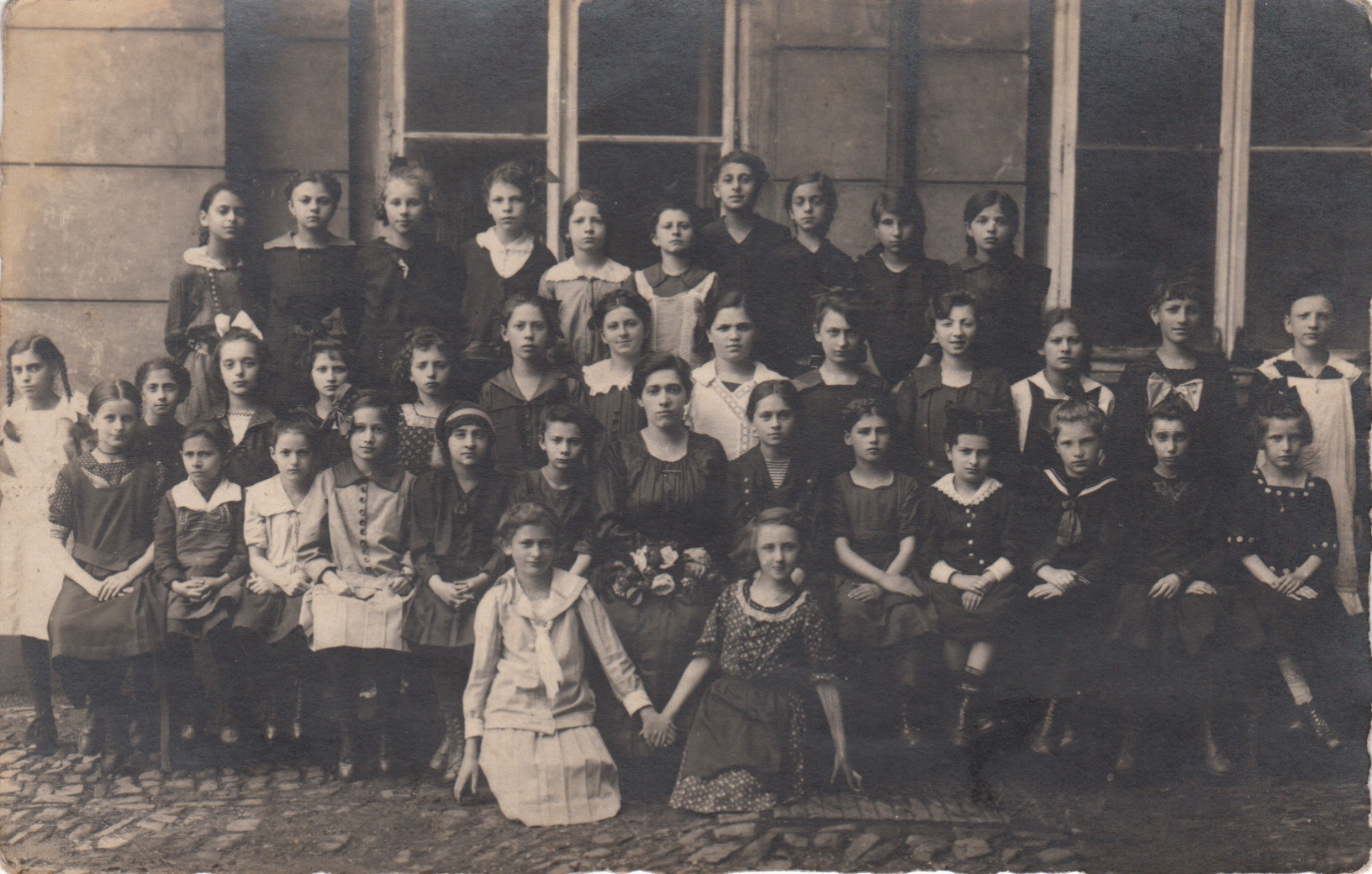 Orthodox school for girls Beth Jaakow in Bielsko Biala, Poland, abt. 1938